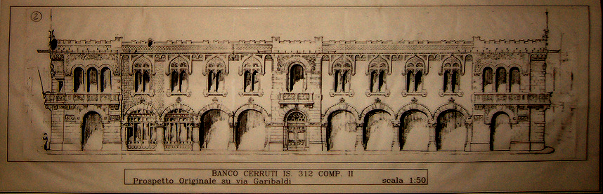 Messina, Palazzo del Granchio o Banco Cerruti, IS. 312 Comp. II, prospetto originale su via Garibaldi